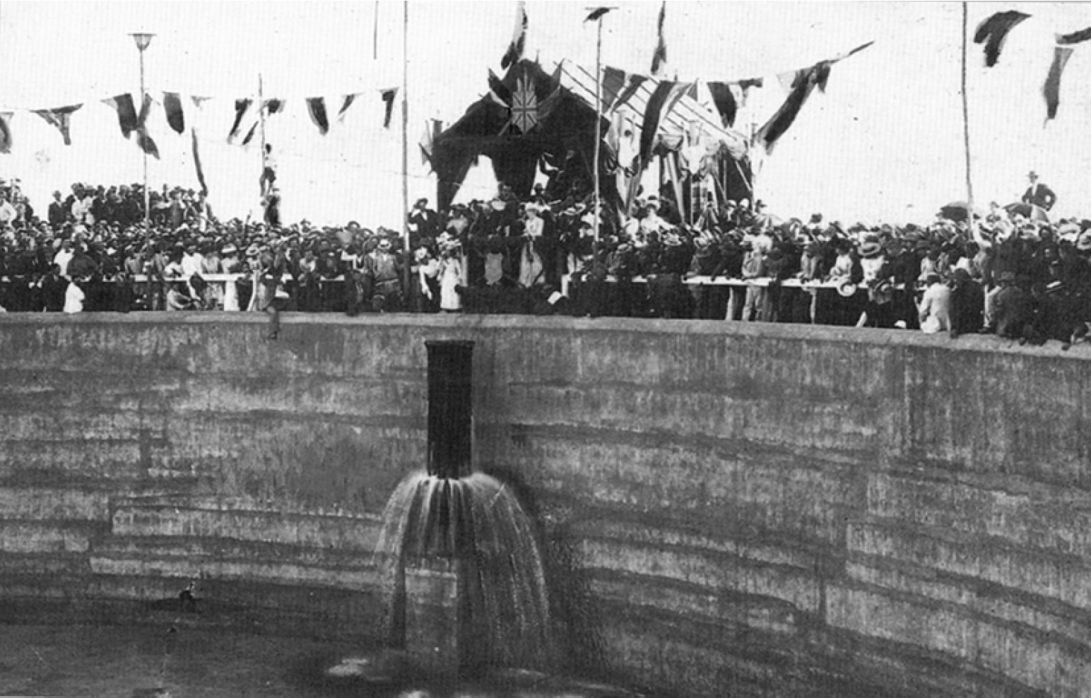 Mt Charlotte Reservoir, 24 January 1903.